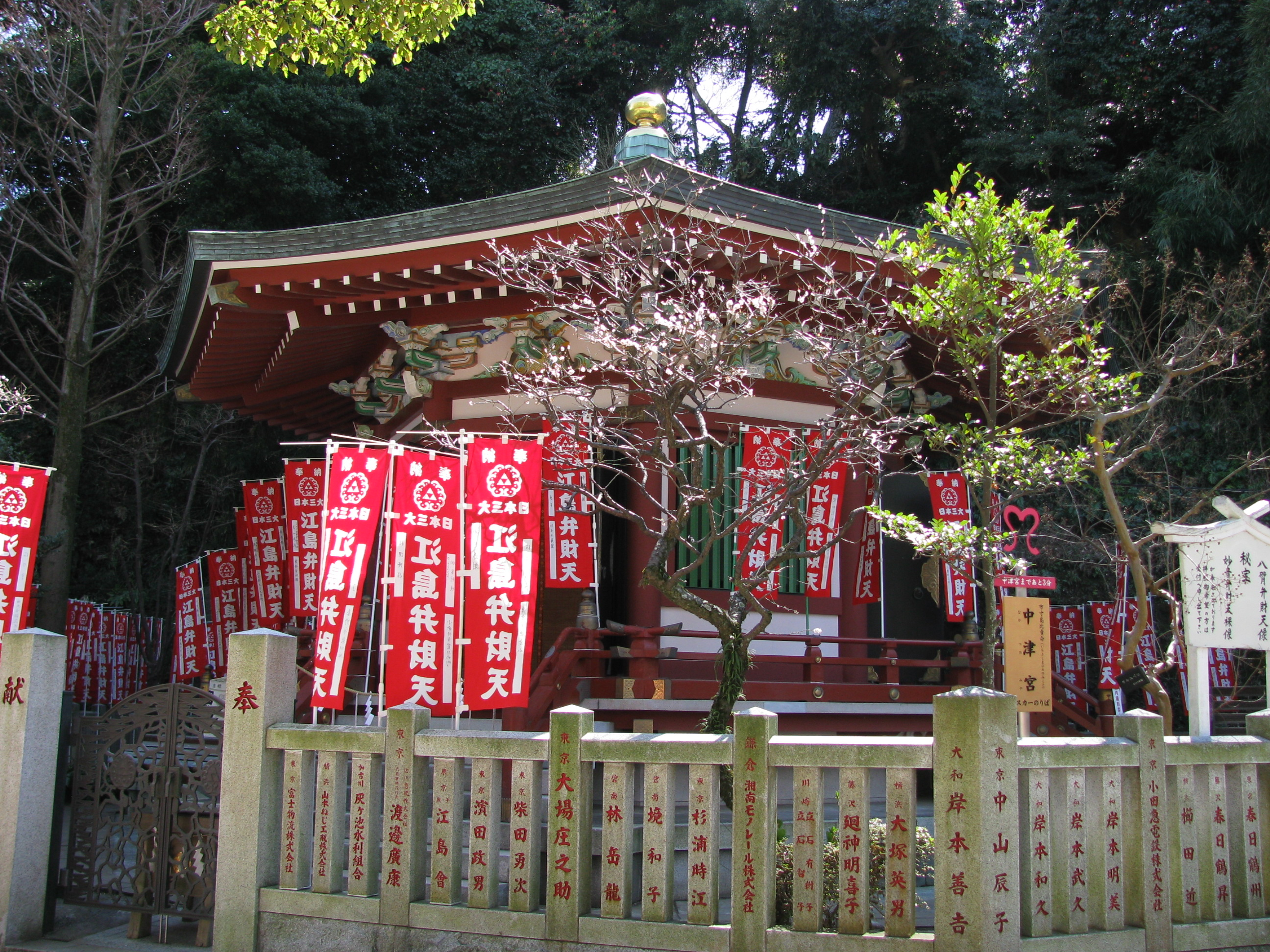 The Hōanden of Enoshima Shrine. This place is Enoshima in Fujisawa, Kanagawa Prefecture, Japan.